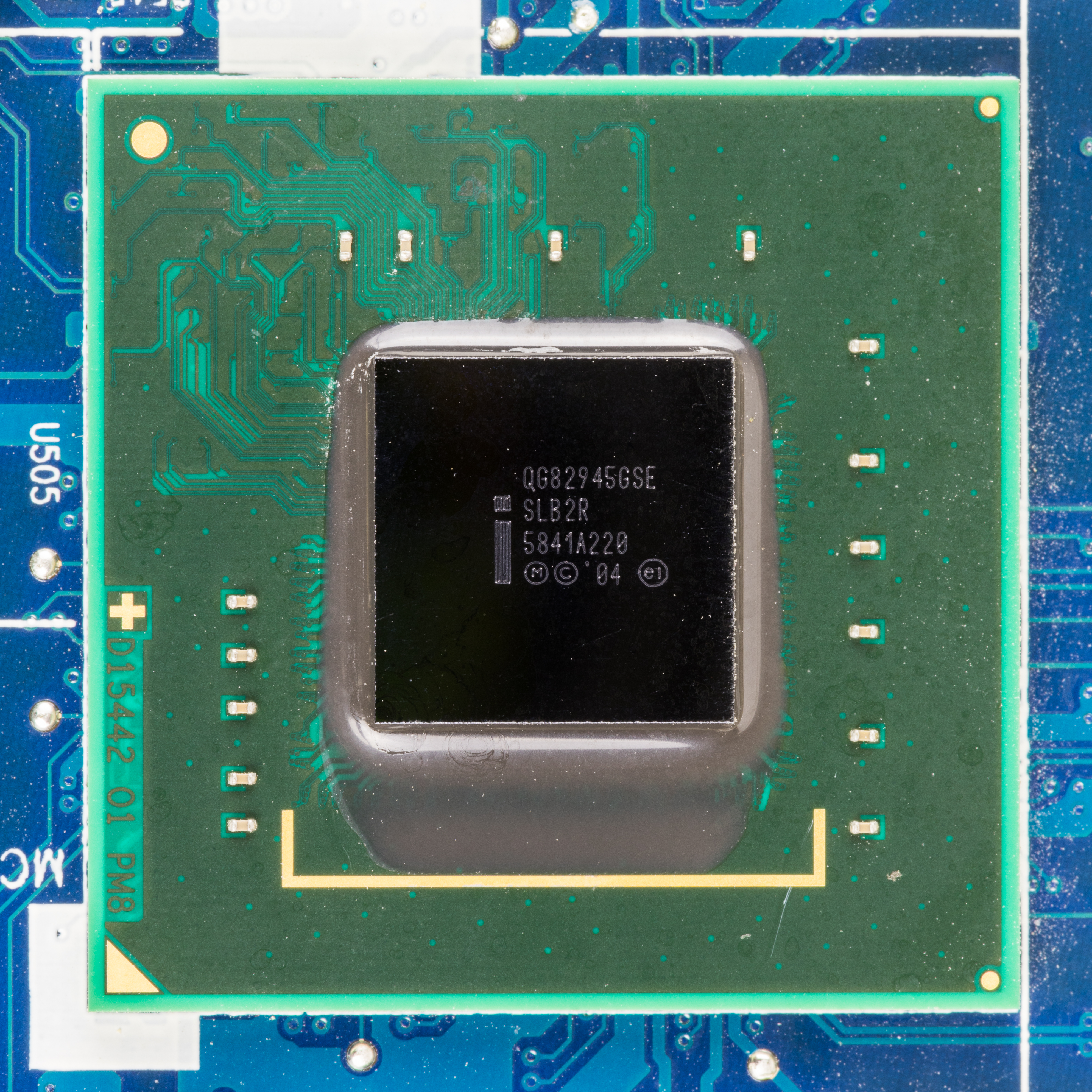 Samsung NC10 - motherboard - Intel QG82945GSW SLB2R - graphics and memory controller hub (GMCH)